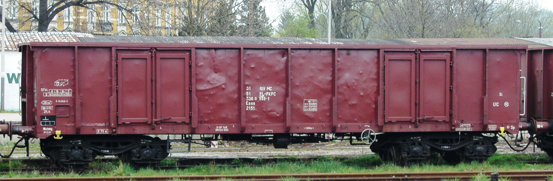 A Polish (PKP), four-axle, UIC standard, open wagon with 9 m bogie pivot pitch (Eaos)